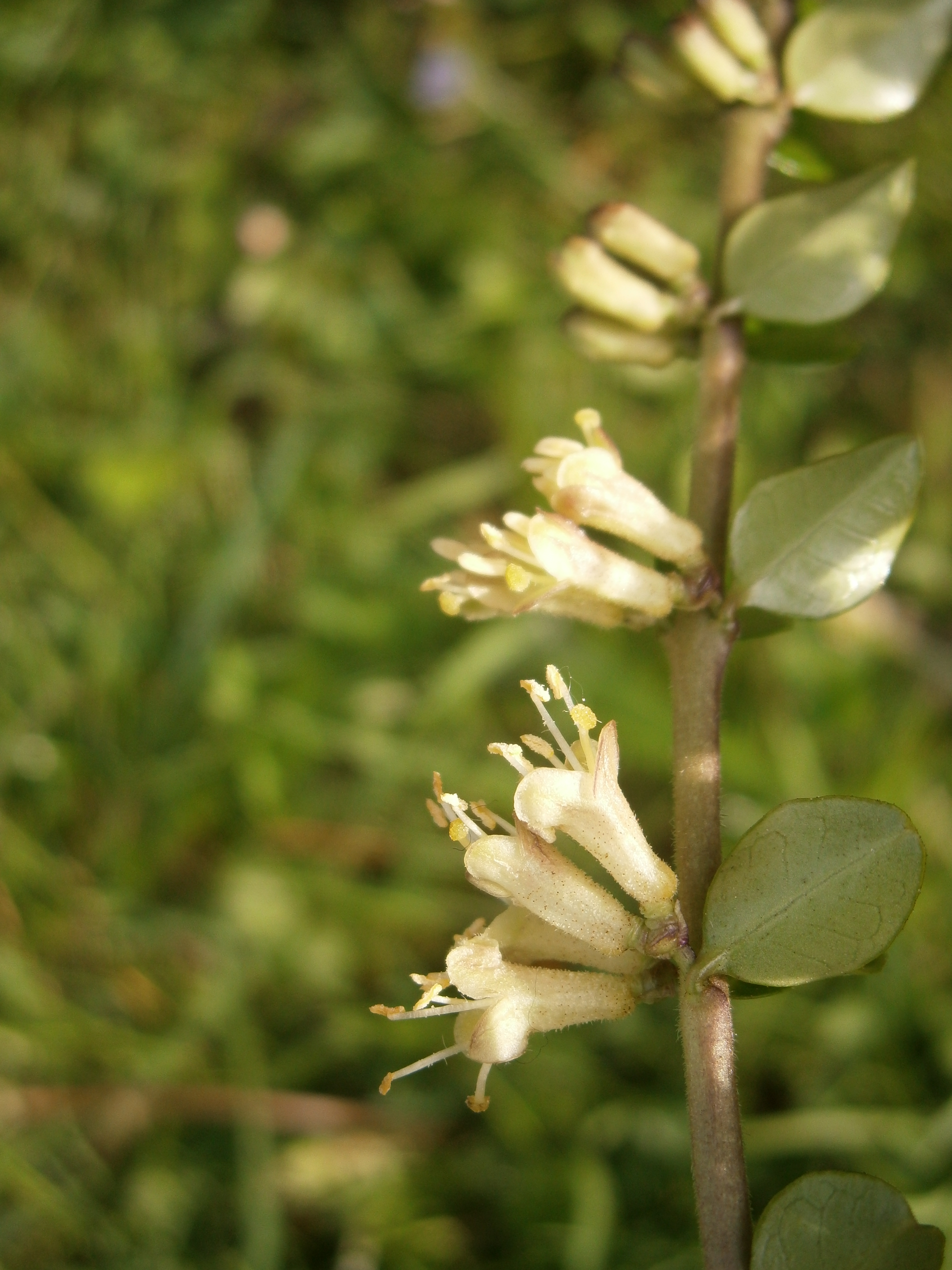 Lonicera pileata flowers